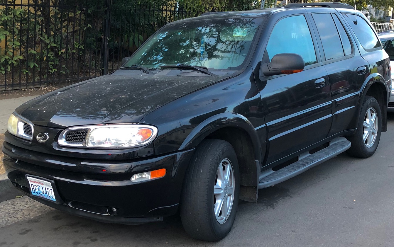 2004 Oldsmobile Bravada SUV